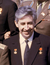 Konstantin Feoktistov. Star City.